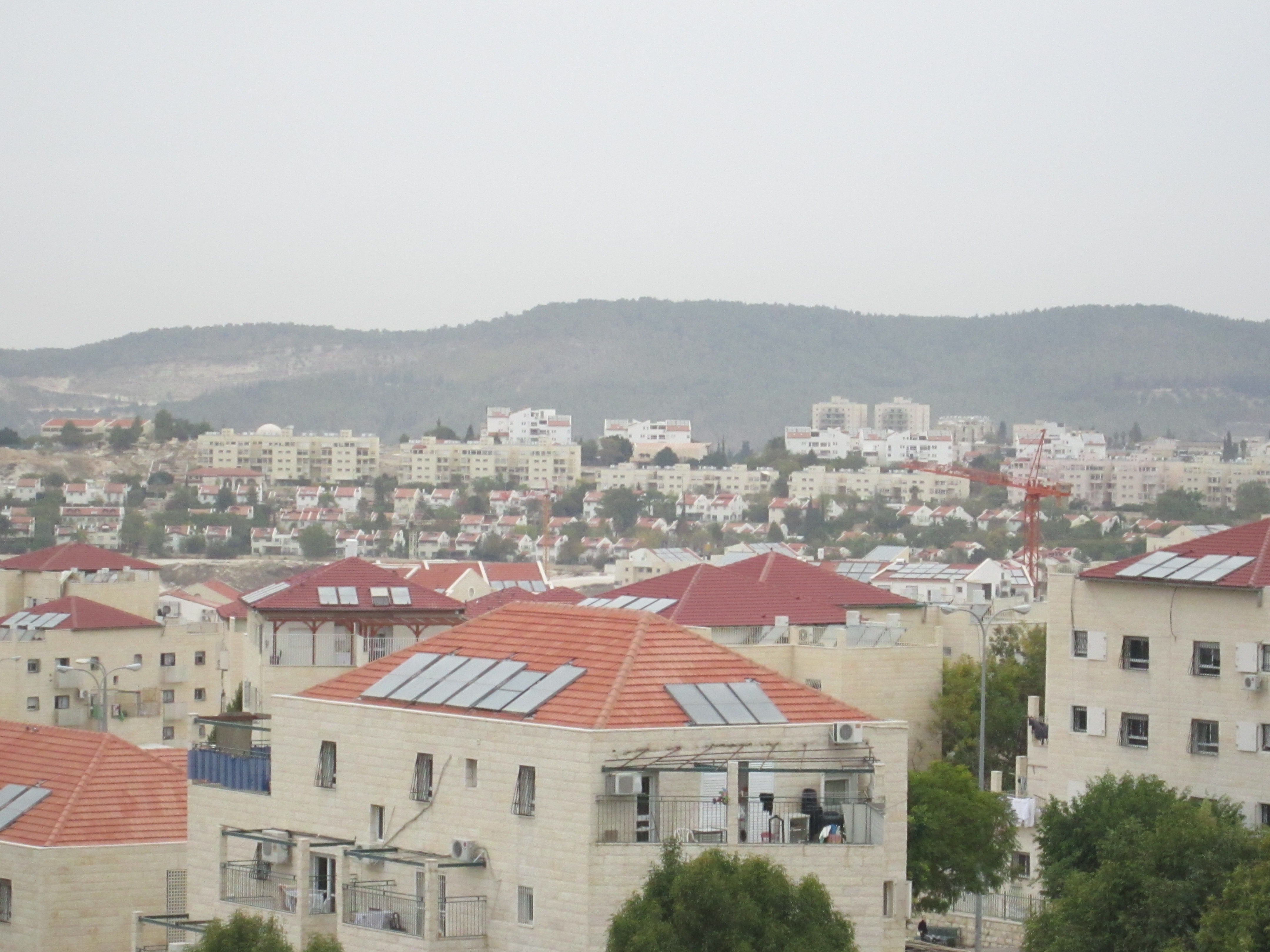 Landscape view, Cities in Israel